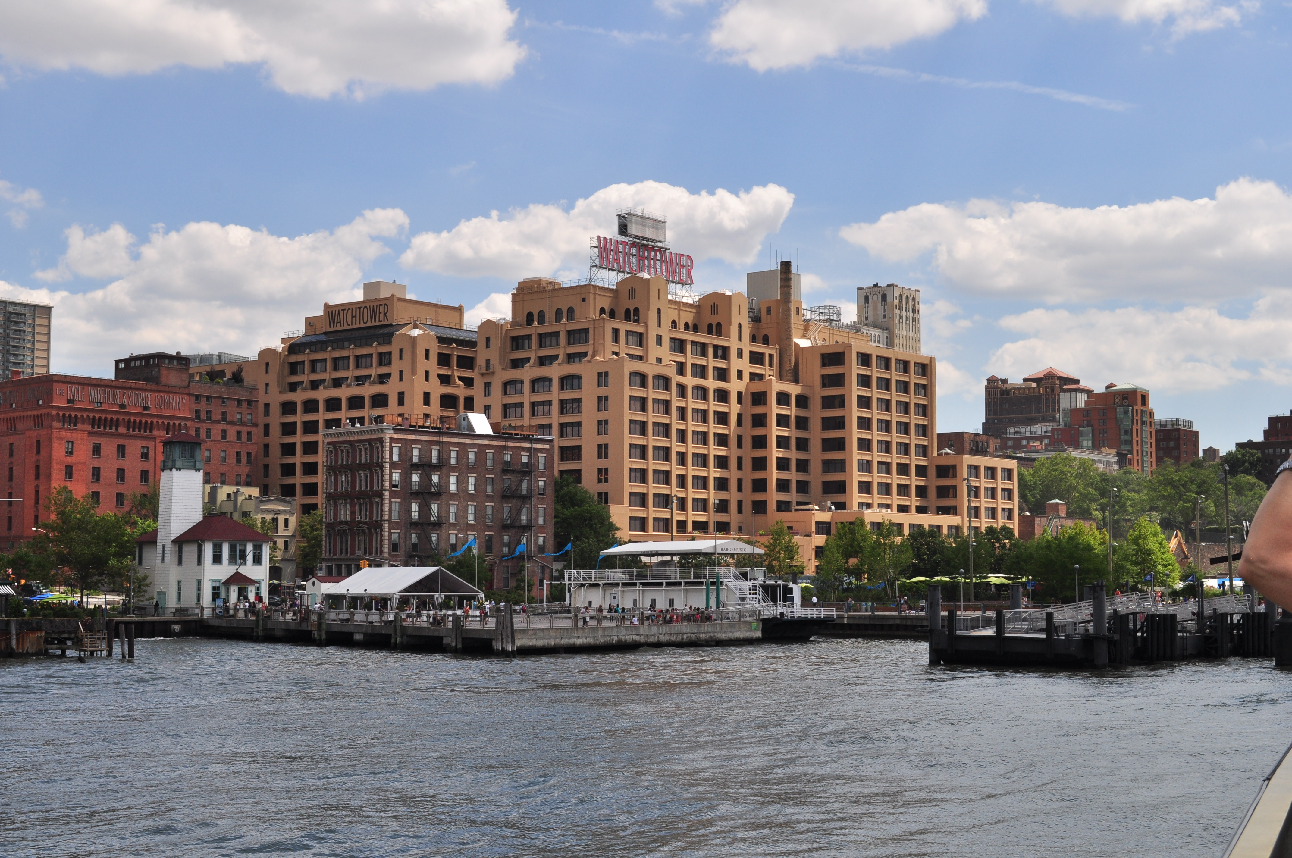 Headquarters of the Watchtower Bible and Tract Society, Brooklyn, New York, seen from New York Water Taxi on the East River. Also, in front of that on the water, a dock that includes the BargeMusic barge.